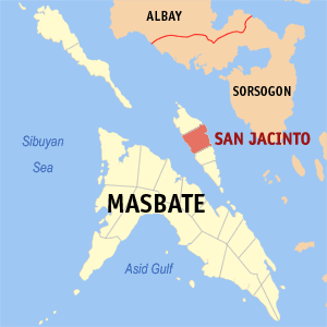 Map of Masbate showing the location of San Jacinto